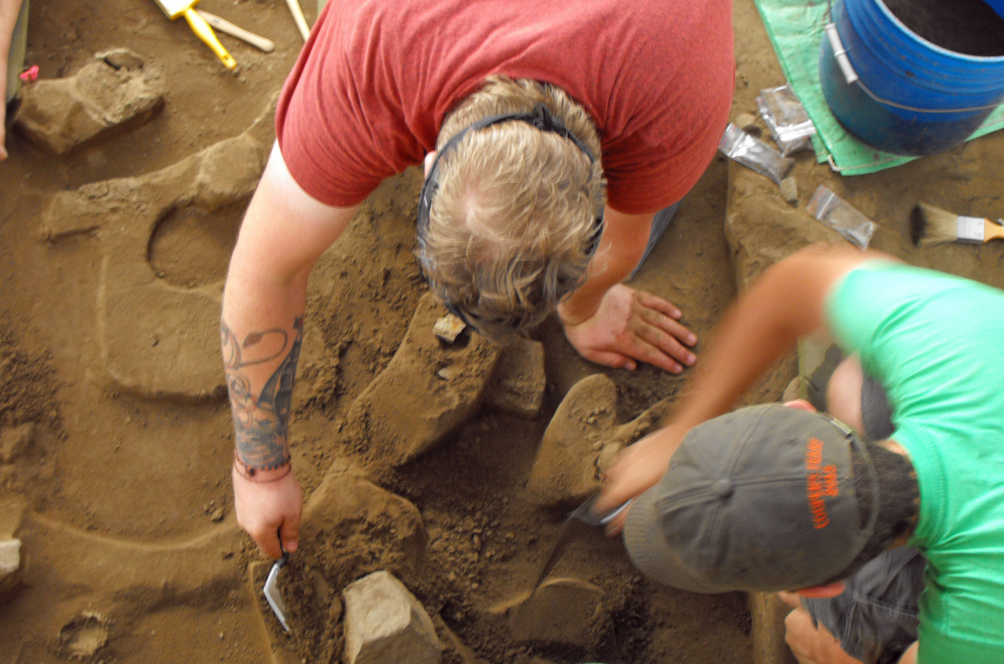 Want to learn firsthand how an archaeological dig is conducted? Each summer, Oregon State University and the BLM conduct an archaeological field school at Cooper’s Ferry just south of Cottonwood, Idaho. Cooper’s Ferry contains some of the earliest evidence of humans in the Pacific Northwest. Students from across the country have participated in this eight-week long course since 1997 and have cataloged over 30,000 items to-date. OSU Professor Dr. Loren Davis leads the field school program. His past research has shown there was human occupation of the canyon dating back to nearly 11,500 years ago. The field school is carefully uncovering layers of that history, “piecing” together generations of past uses. "We know that many people are interested in the history of the river canyon, just as we are,“ said David Sisson, BLM archaeologist who assists with the field school. “This is a unique opportunity for the public to see the excavation process and learn how the various layers of sediment provide clues to the lifestyles of previous canyon inhabitants.” Visitors are welcome to visit the dig, free of charge charge, Wednesday through Sunday from 7:30 a.m. until 3:00 p.m. This year, the course runs June 22 – August 14. Check with the local BLM office for more information.